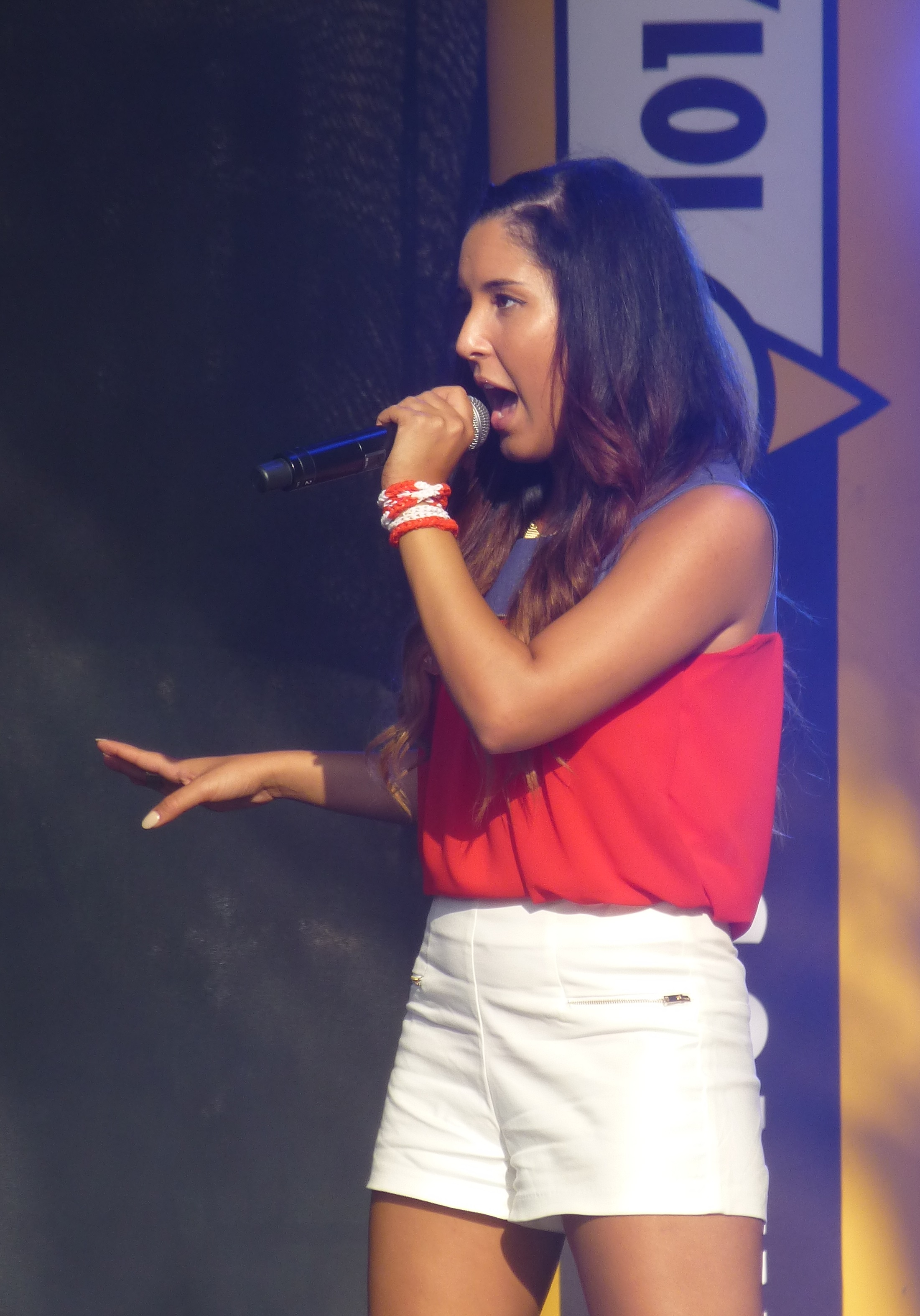 Meltem Acikgöz on the Radio Salü stage at the Saarspektakel 2014 in Saarbrücken